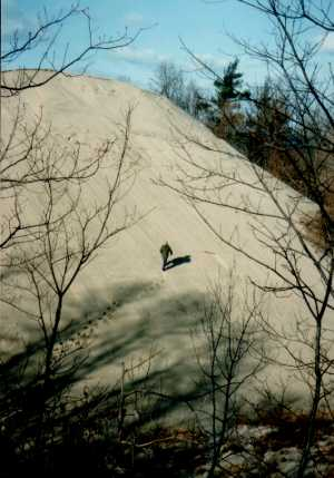 Indiana Dunes National Lakeshore. Mt. Baldy, Michigan City - a sand dune constantly in motion